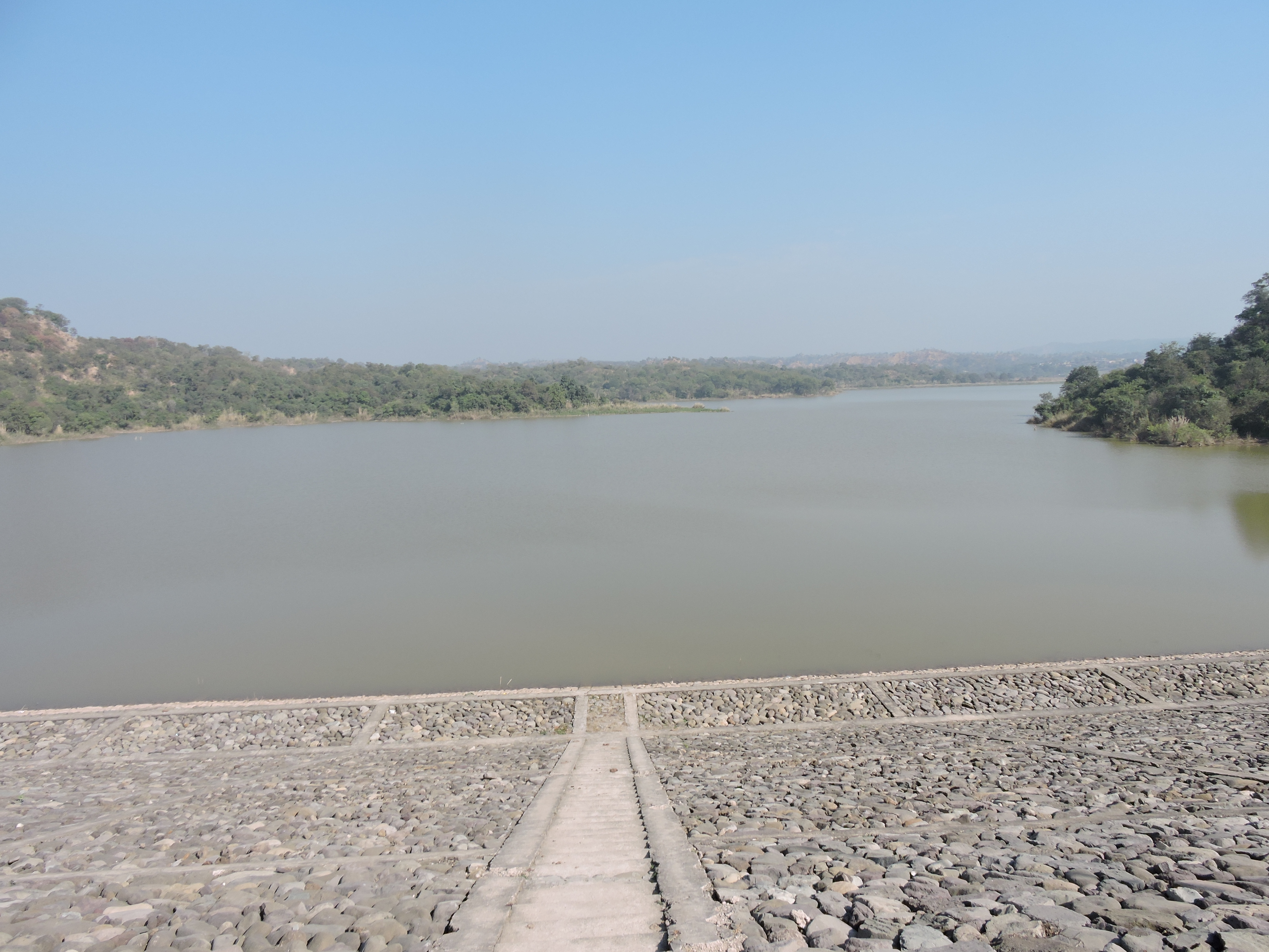 Mirzapur Dam, district SAS Nagar ,Mohali, Punjab ,India